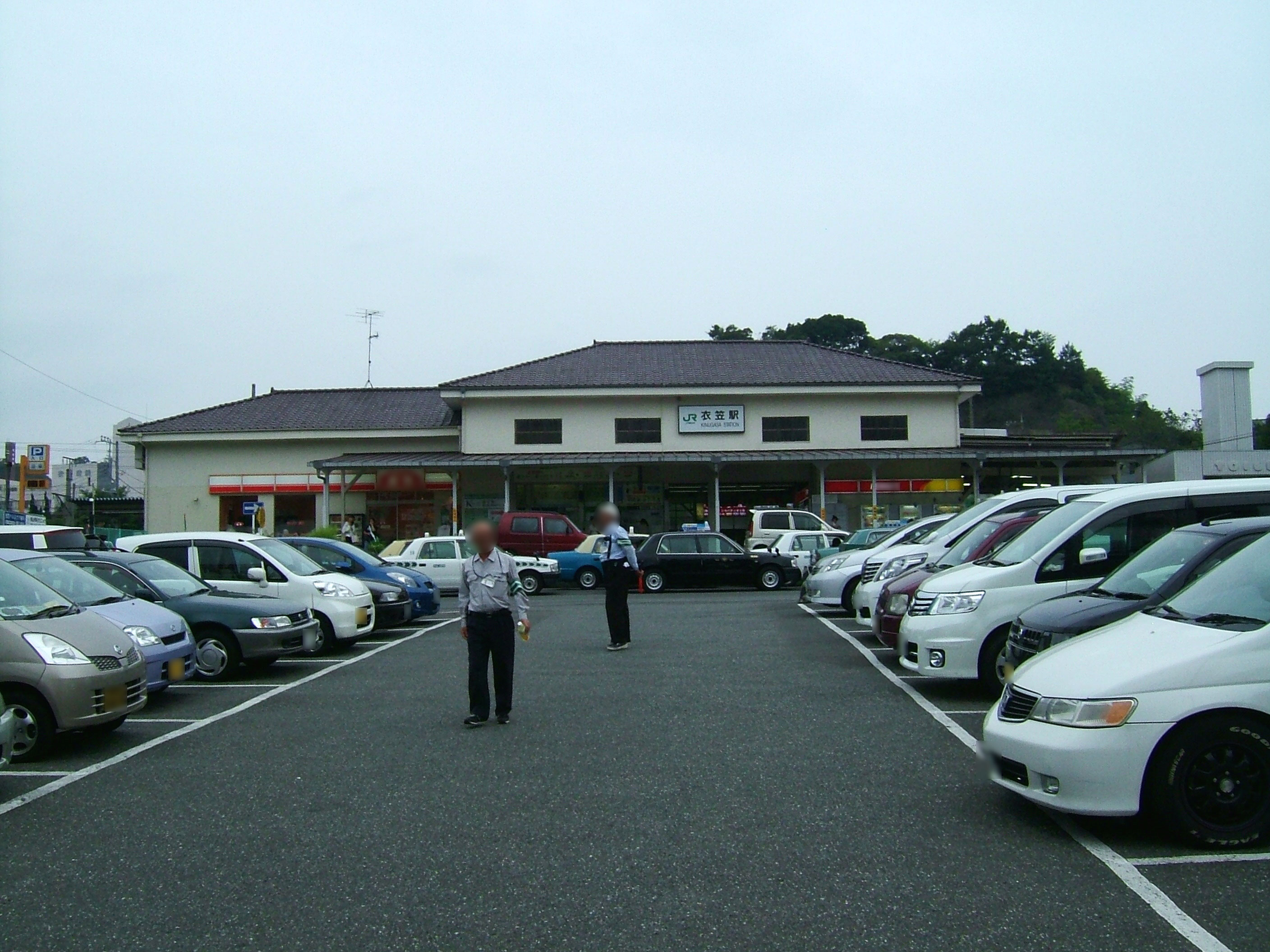 Kinugasa Station building (East Japan Railway Yokosuka Line)